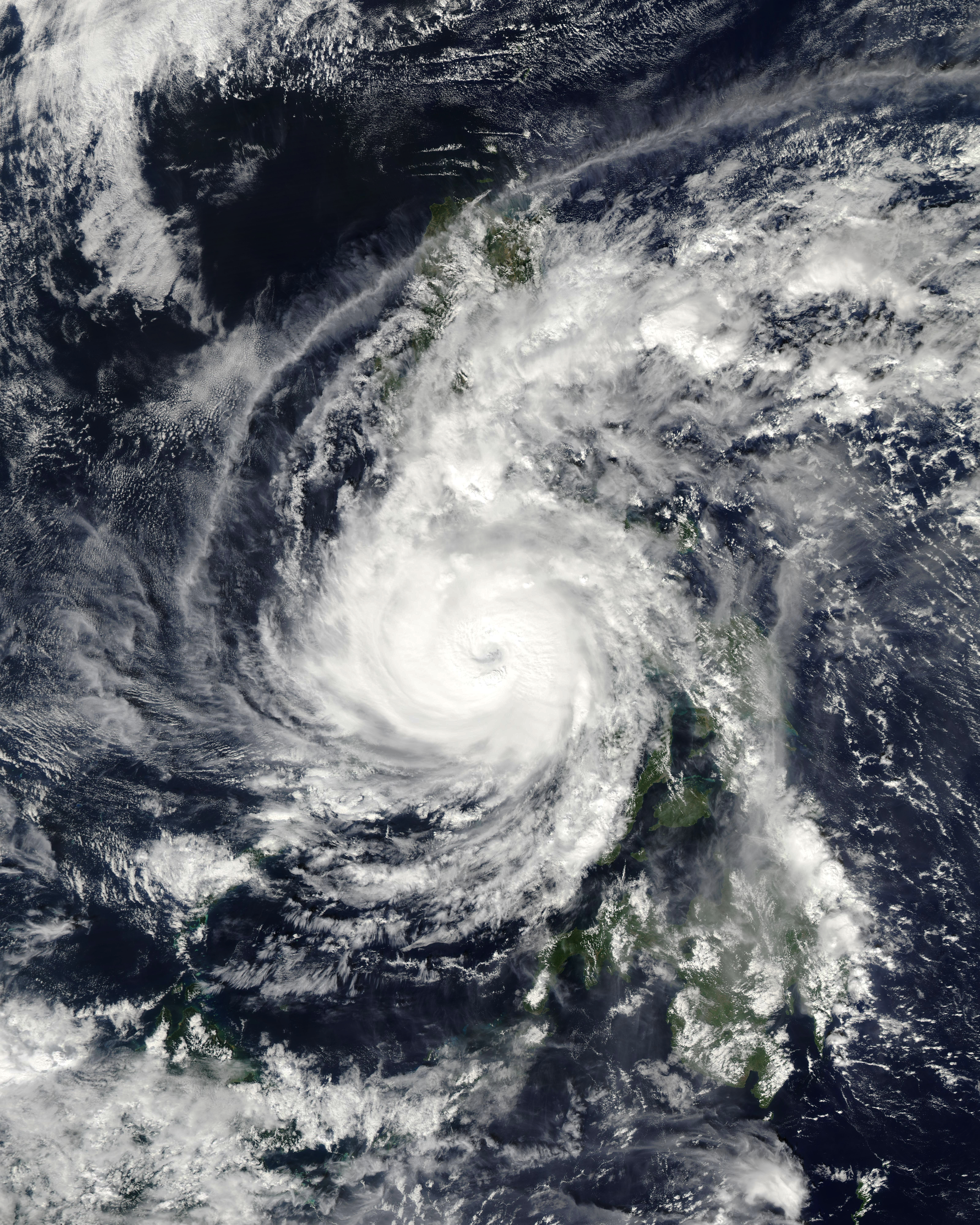 Typhoon Phanfone on December 25, 2019